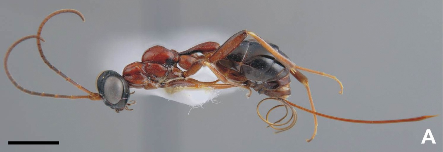 Adult Gelis apterus female in lateral view. Scale = 1 mm.